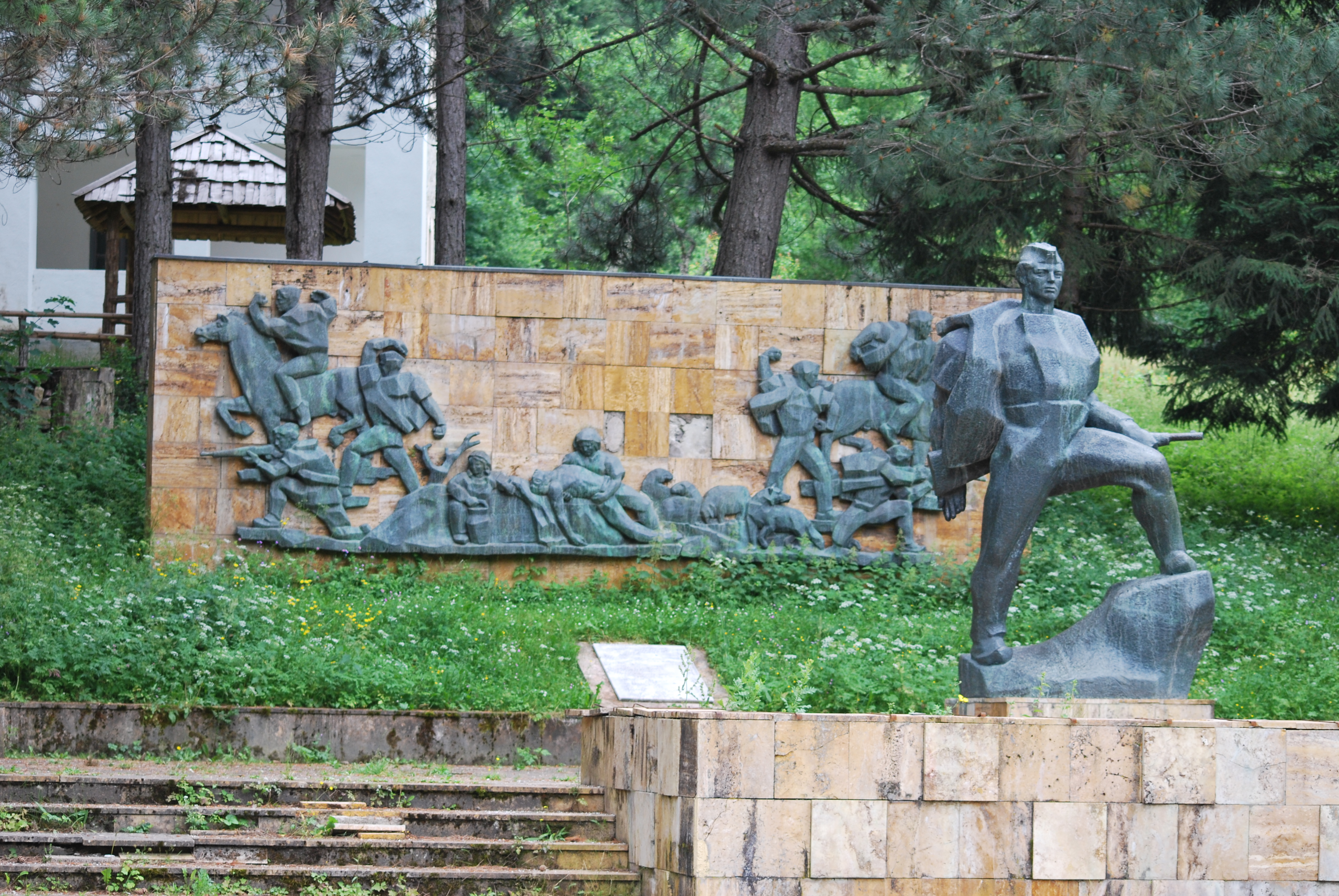 ITrnica, Macedonia